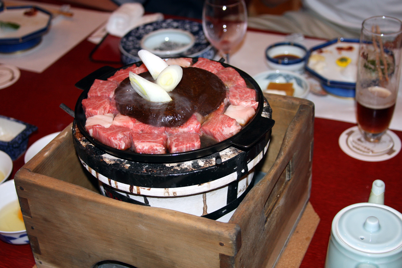 Pot of traditional Yokohama-style gyunabe being prepared using beef from Yamagata prefecture.